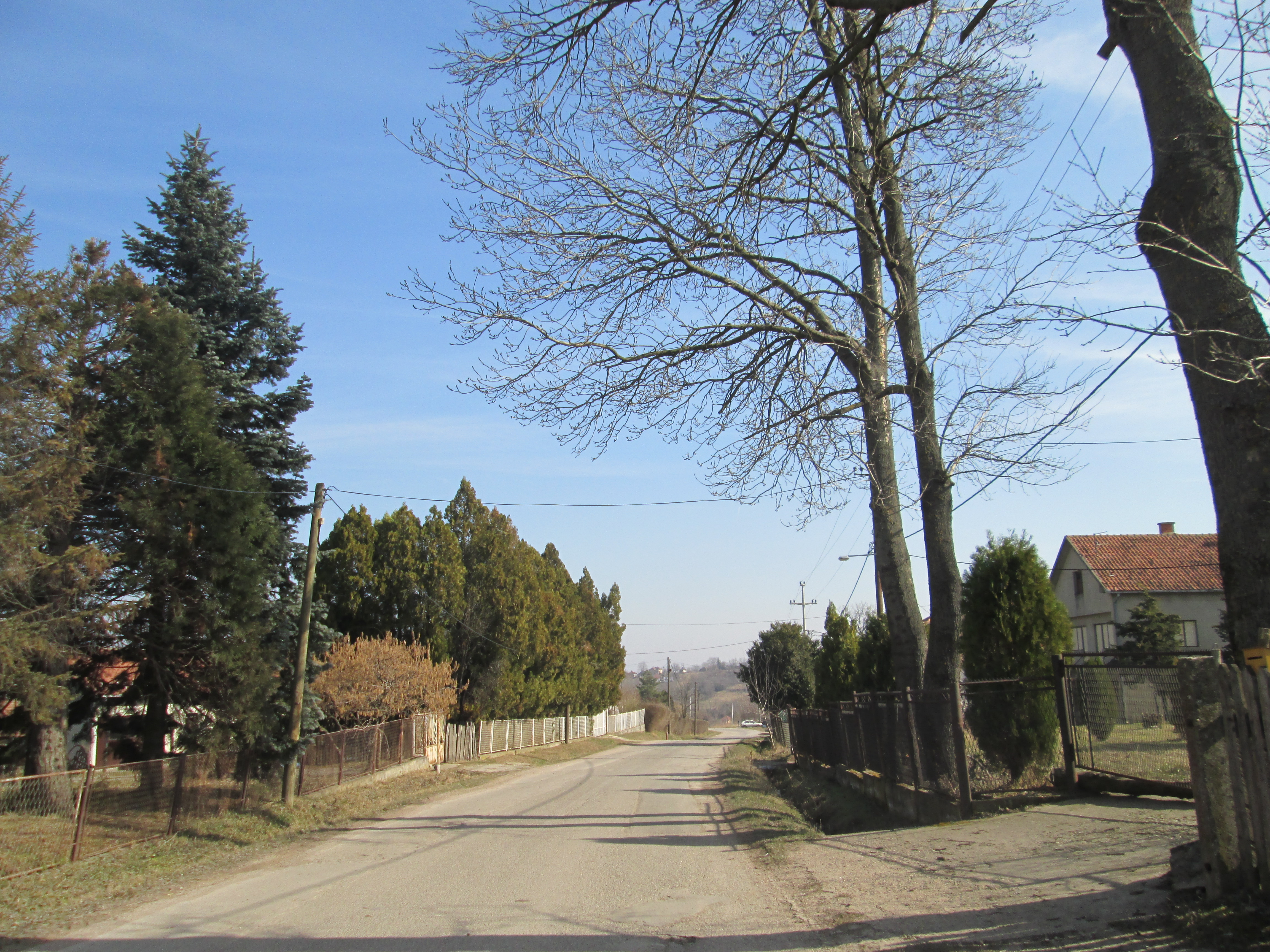 View over the village.Српски (ћирилица): Поглед на село.